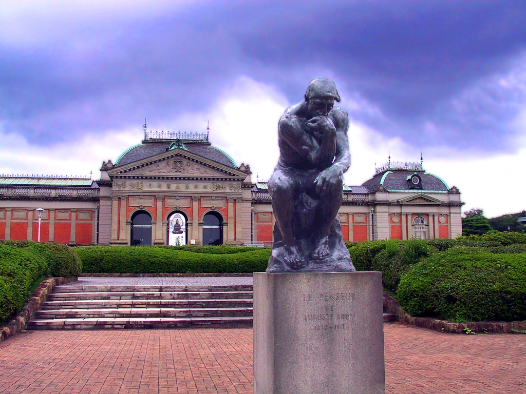 A copy of Auguste Rodin's The Thinker at the Kyoto National Museum in Kyoto, Japan